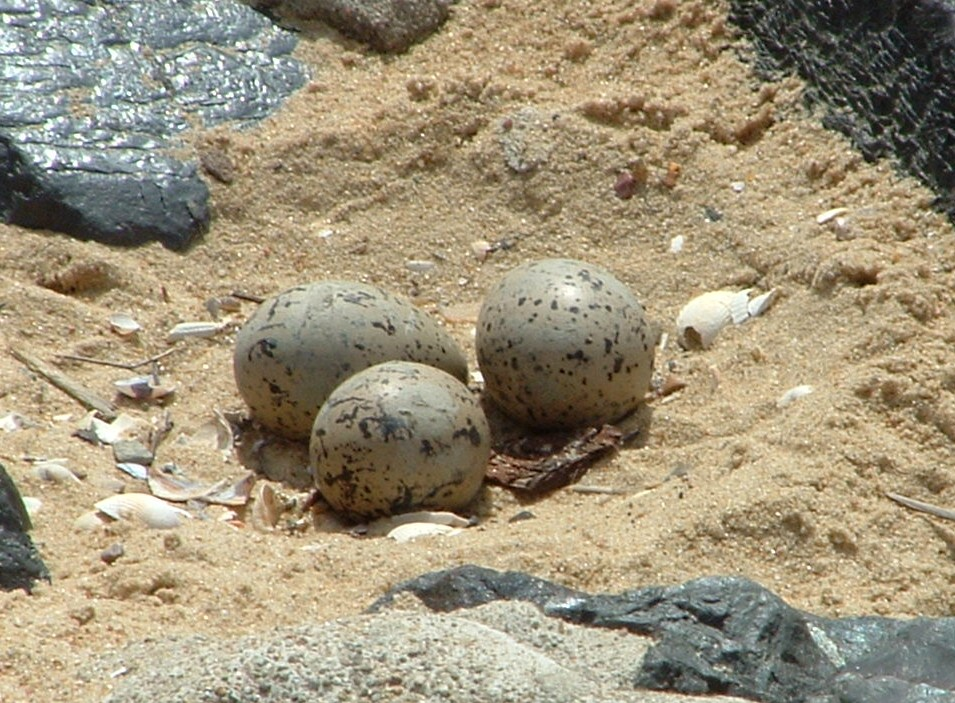 Eggs of an oystercatcher. The bird was breeding on the clutch a few moments earlier. It get up as the photographer passed along in order to distract from the eggs.